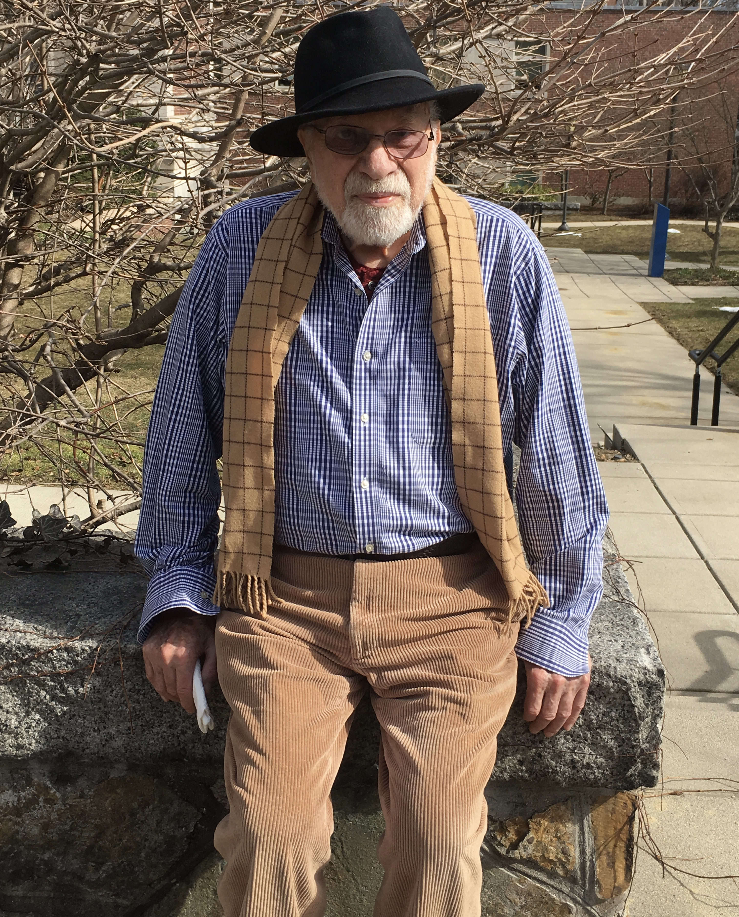 Stanley Cavell in 2017